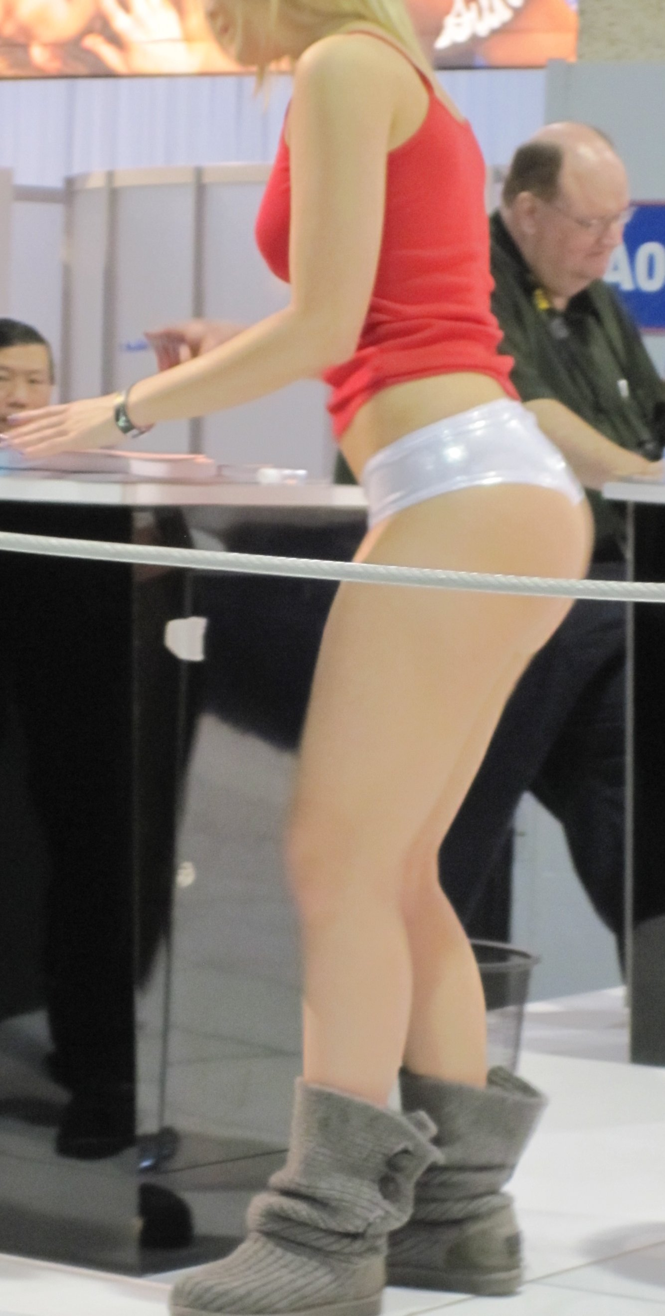 Alexis Texas AEE 2010 side view!